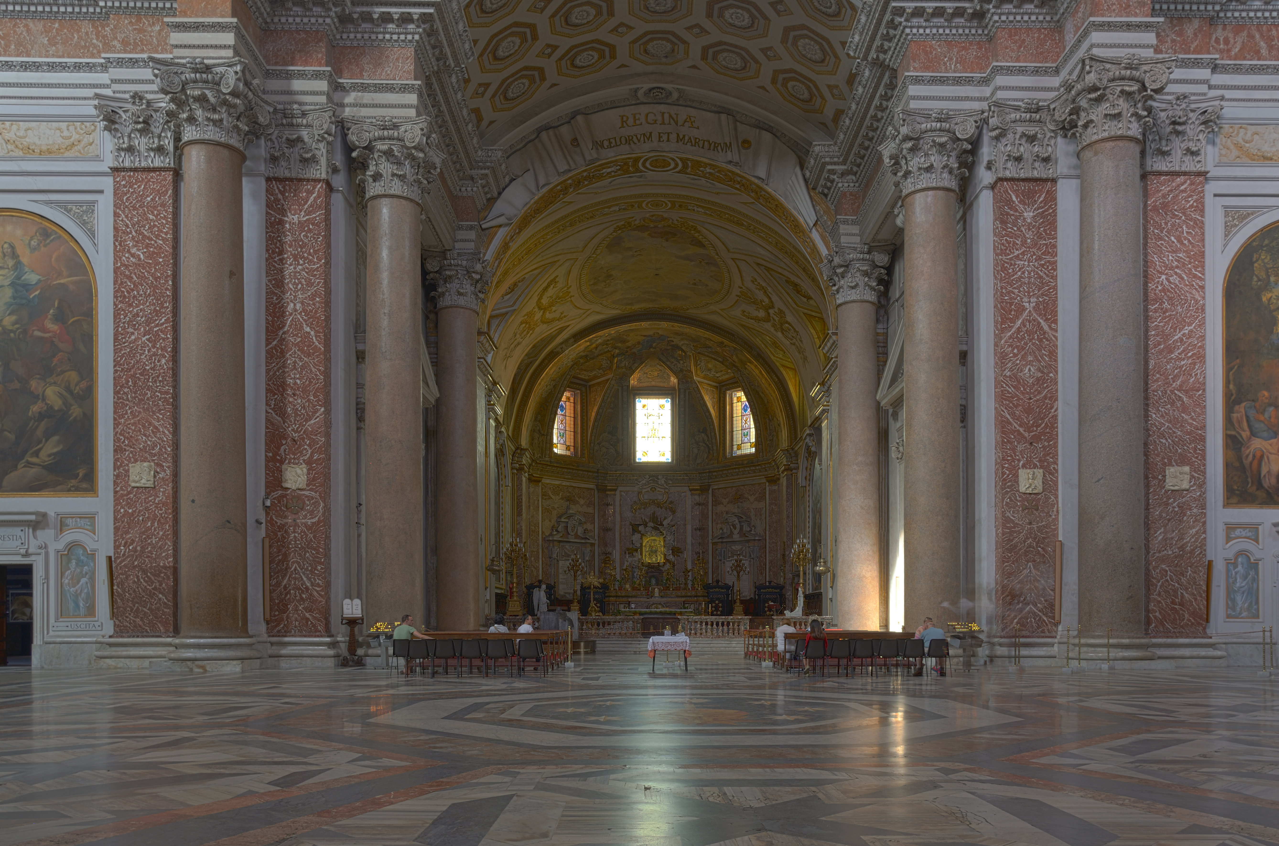 Santa Maria degli Angeli (Rome) - Inside HDR